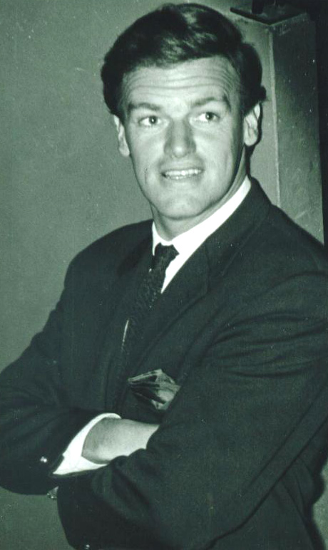 Keith Michell